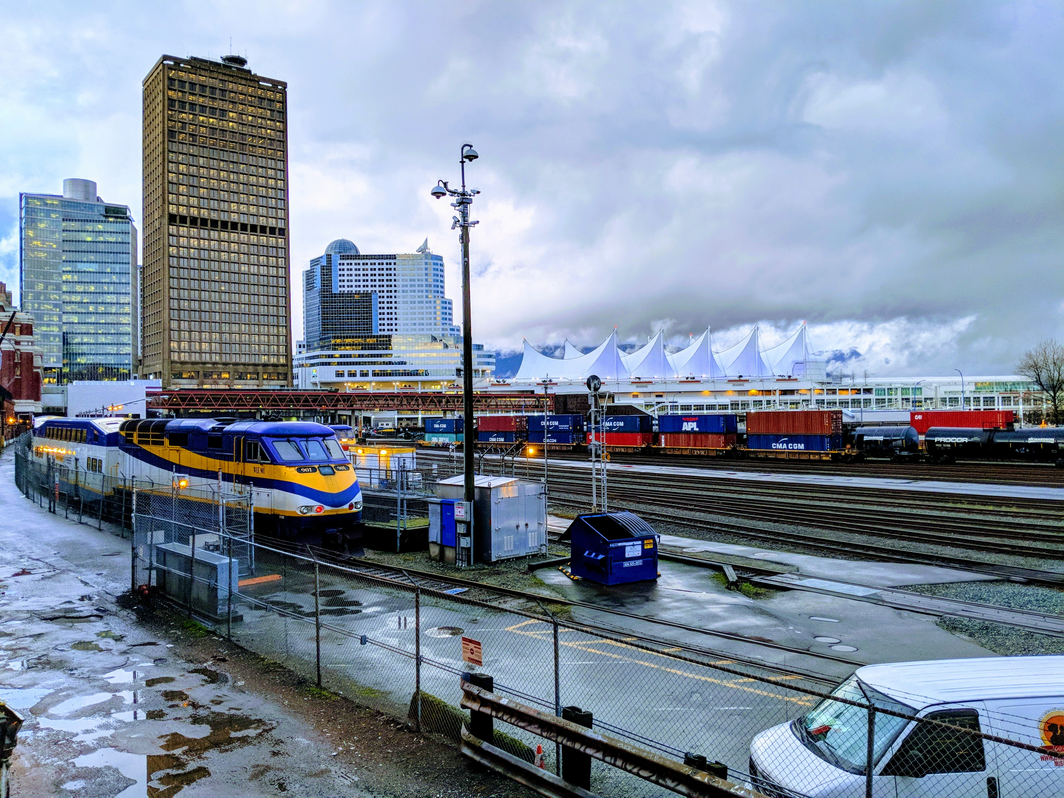 West Coast Express train parked at Waterfront station before departing for Mission City.